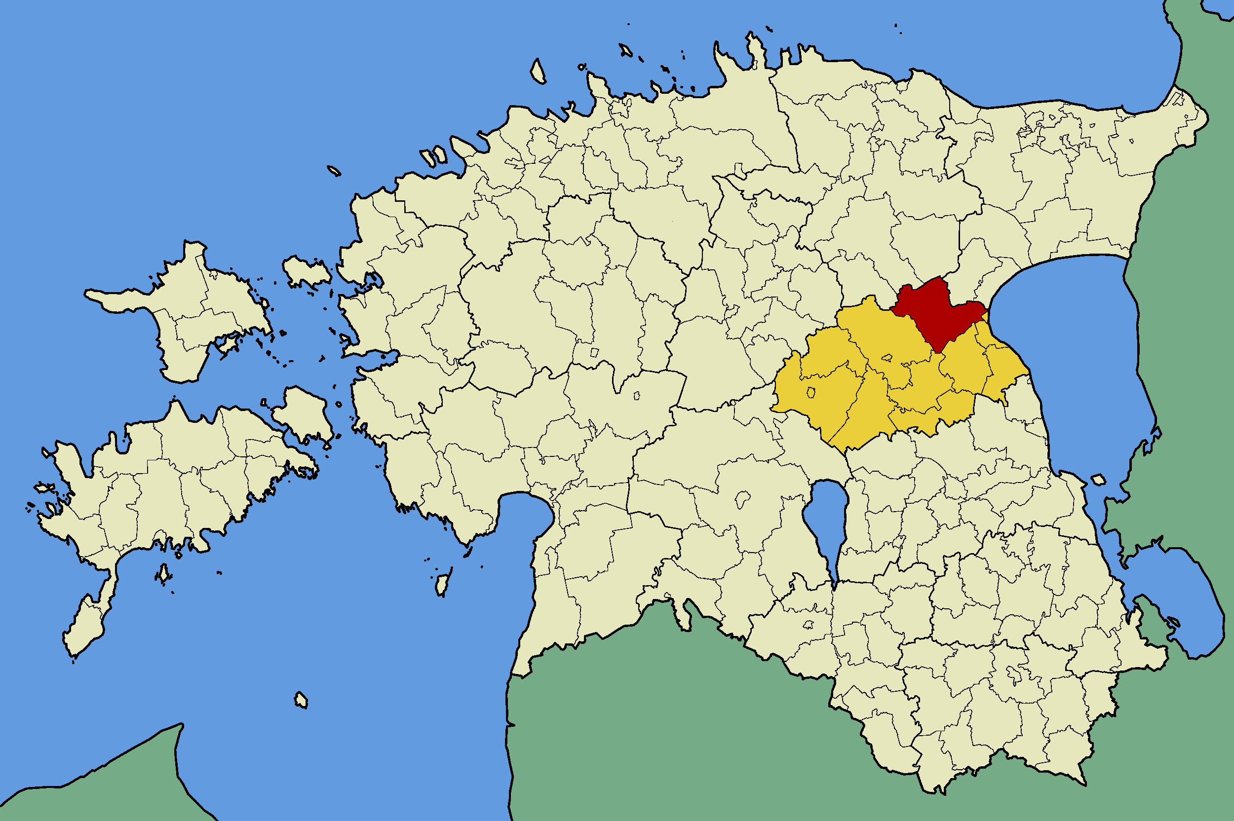 Map of Estonia with borders of municipalities (parishes). Jõgeva county and Torma municipality emphasized.